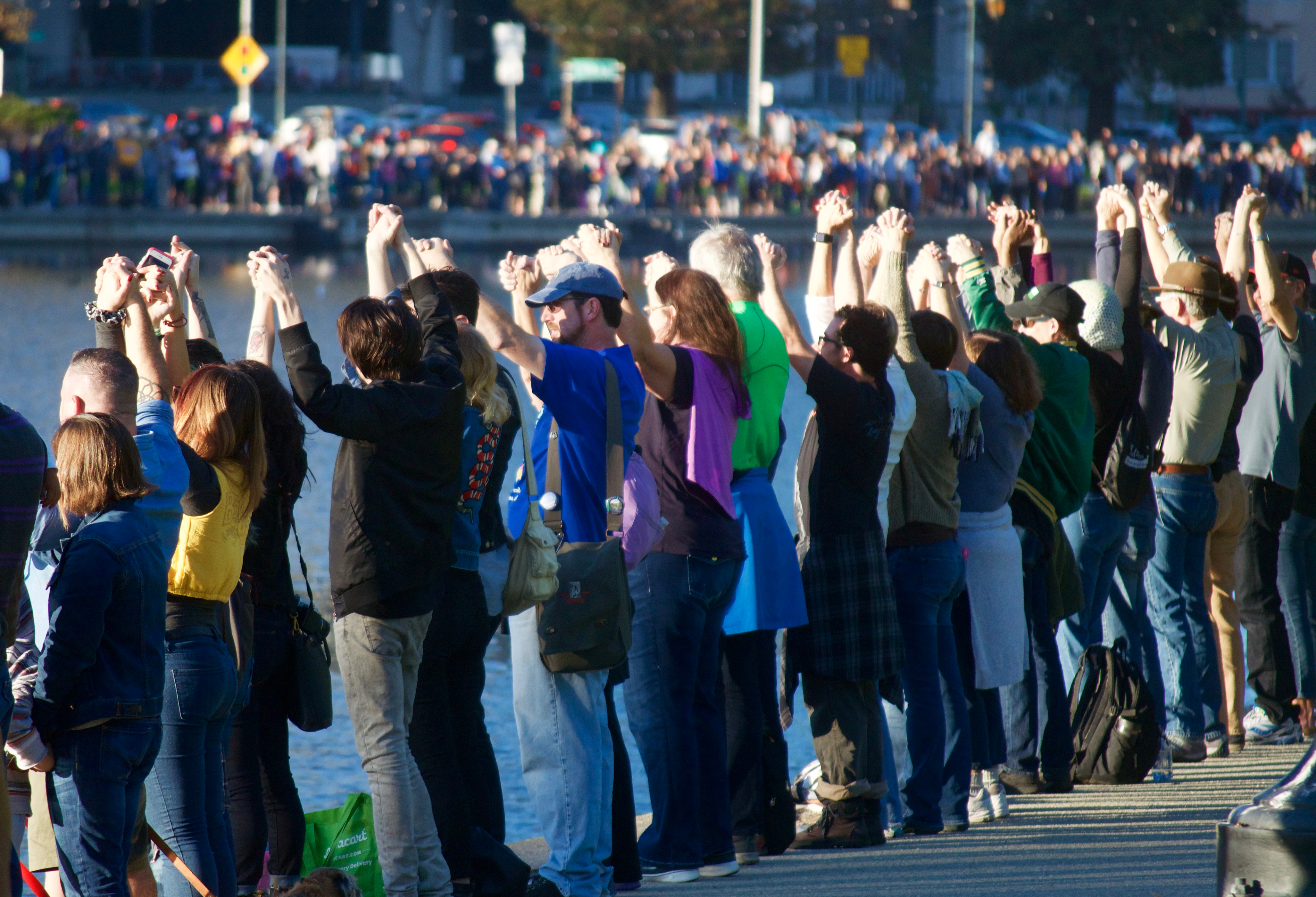 "Hands Around Lake Merritt" protest on 13 Nov 2016. A peaceful protest in reaction to the presidential election to "to stand up against racism, sexism, homophobia, and Islamophobia."